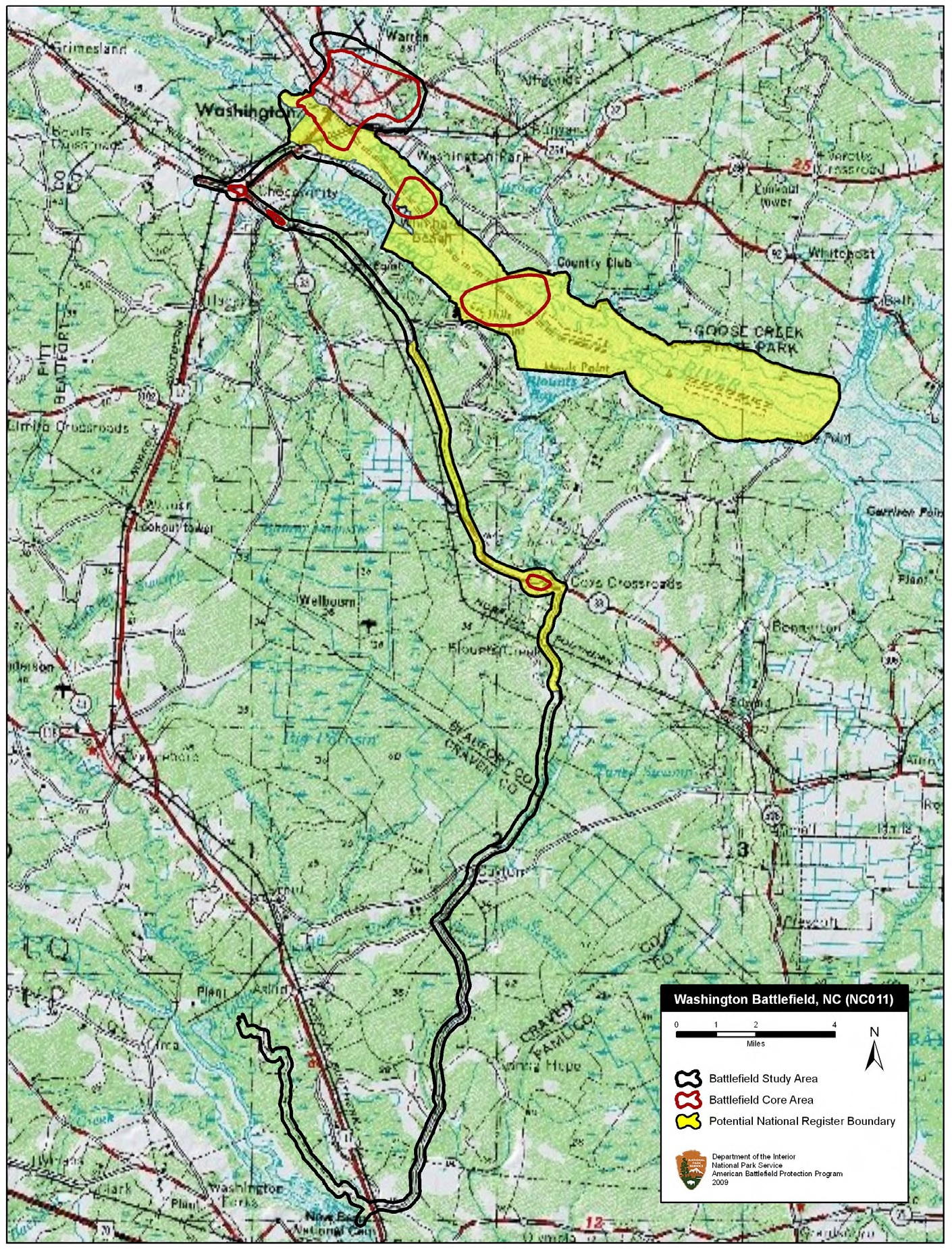 Map of battlefield core and study areas. The ABPP made substantial changes to the 1993 battlefield boundaries. Core Areas were added to describe areas of naval bombardment and locations of Confederate delaying actions along the Federal approach to Washington. The Study Area was expanded to accommodate the new Core Areas, to reflect the areas in which Federal naval forces operated, and to illustrate the approach route of the Union army’s relief column.